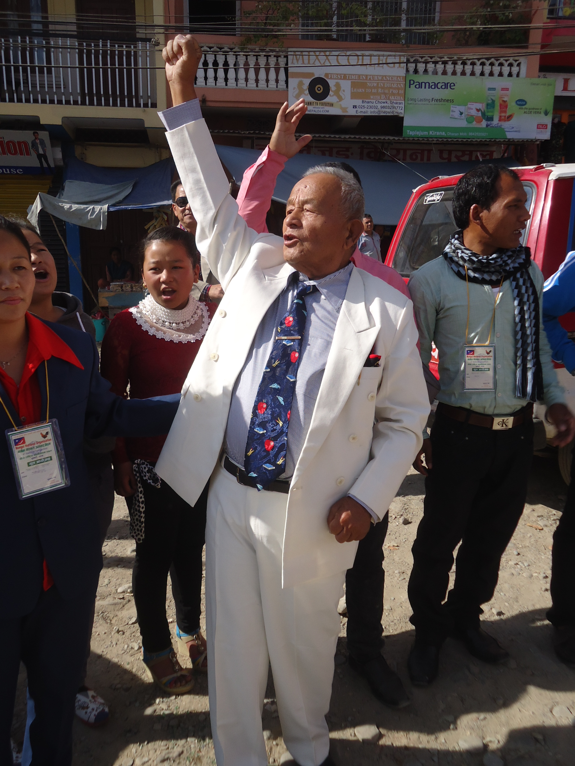 Gurung at the Fourth National Conference